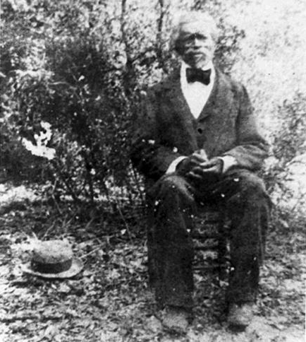 Photograph of Neptune Small circa 1900.